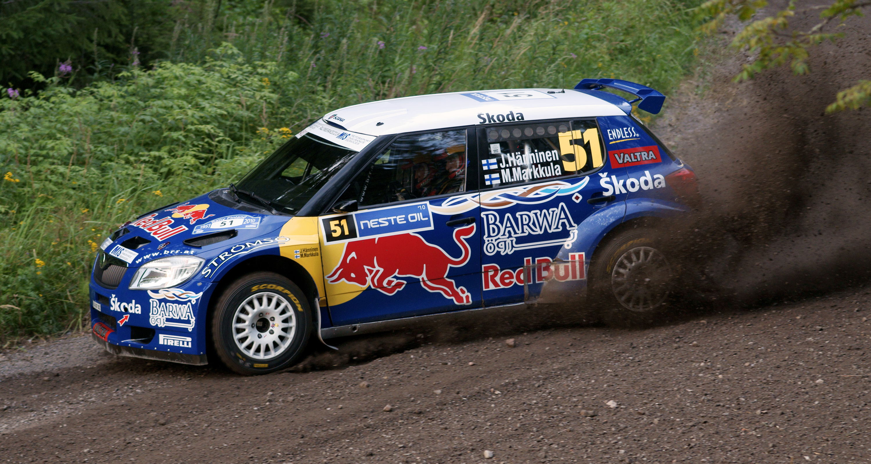 Juho Hänninen driving at Laajavuori special stage, Rally Finland 2010.